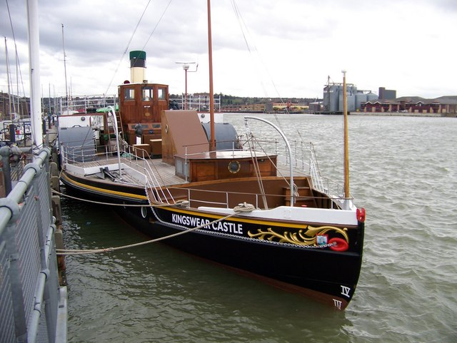 PS Kingswear Castle IMO number: 5755216